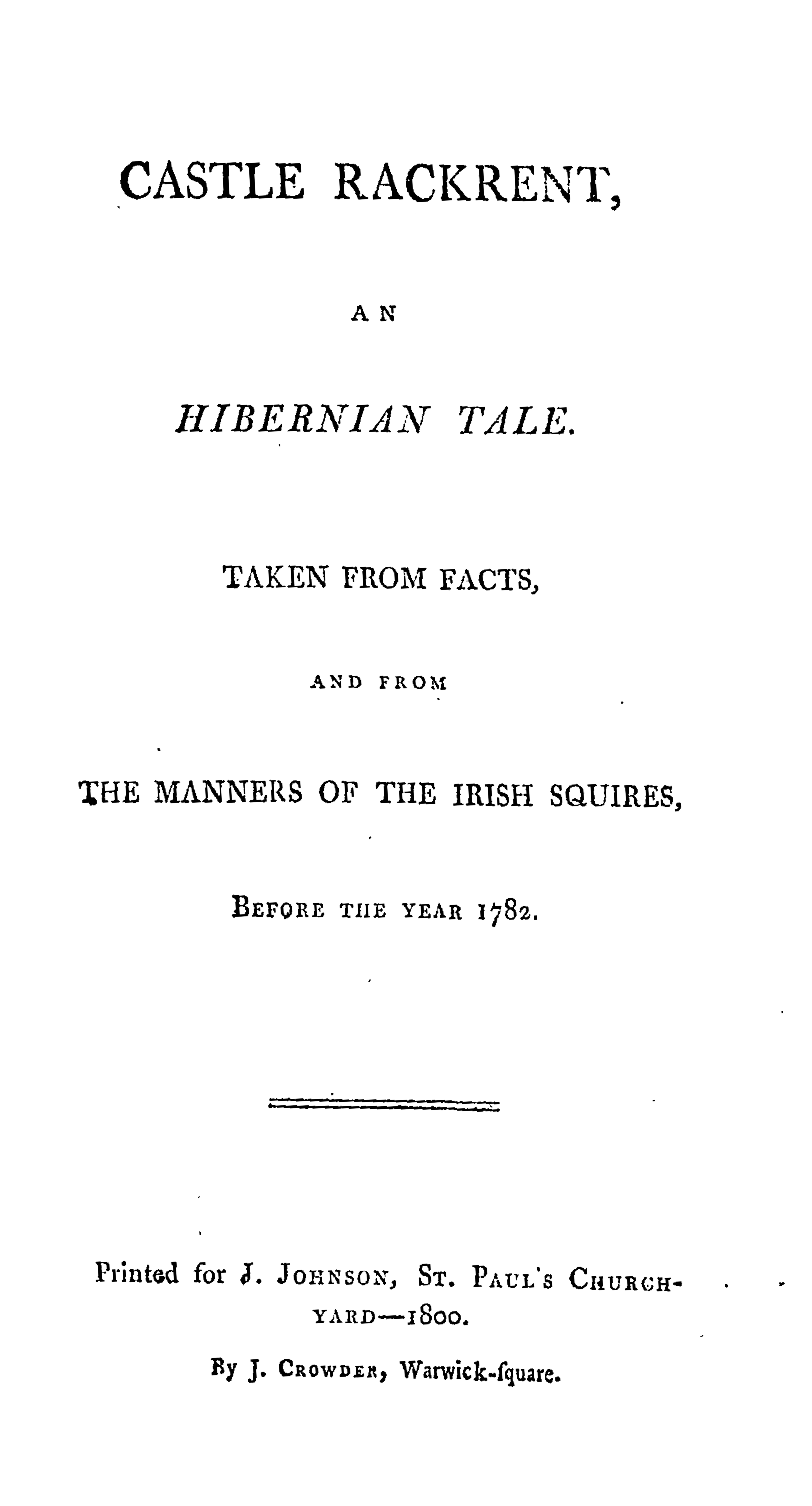 Castle Rackrent, an Hibernian Tale. Taken from facts, and from the manners of the Irish squires, before the year 1782. Printed for J. Johnson, St. Paul's Churchyard. By J. Crowder, Warwick-Square, 1800.